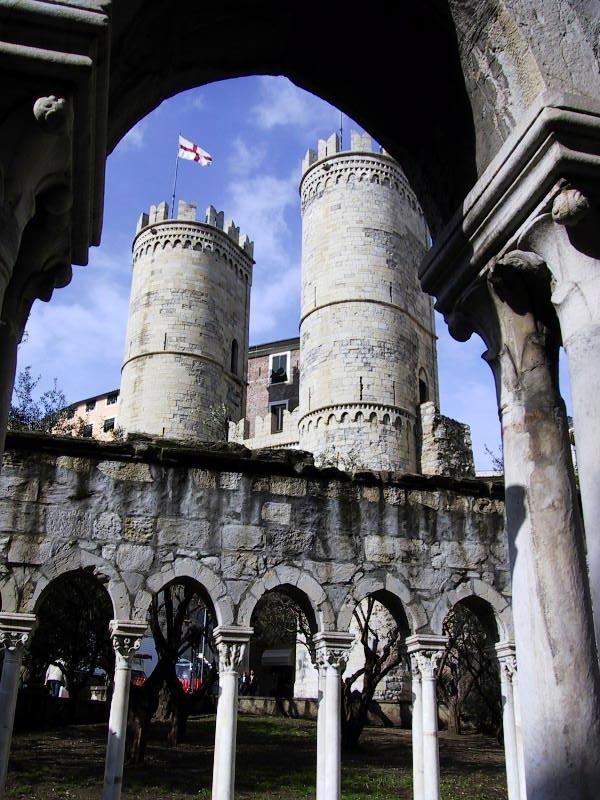 Mike Chapman